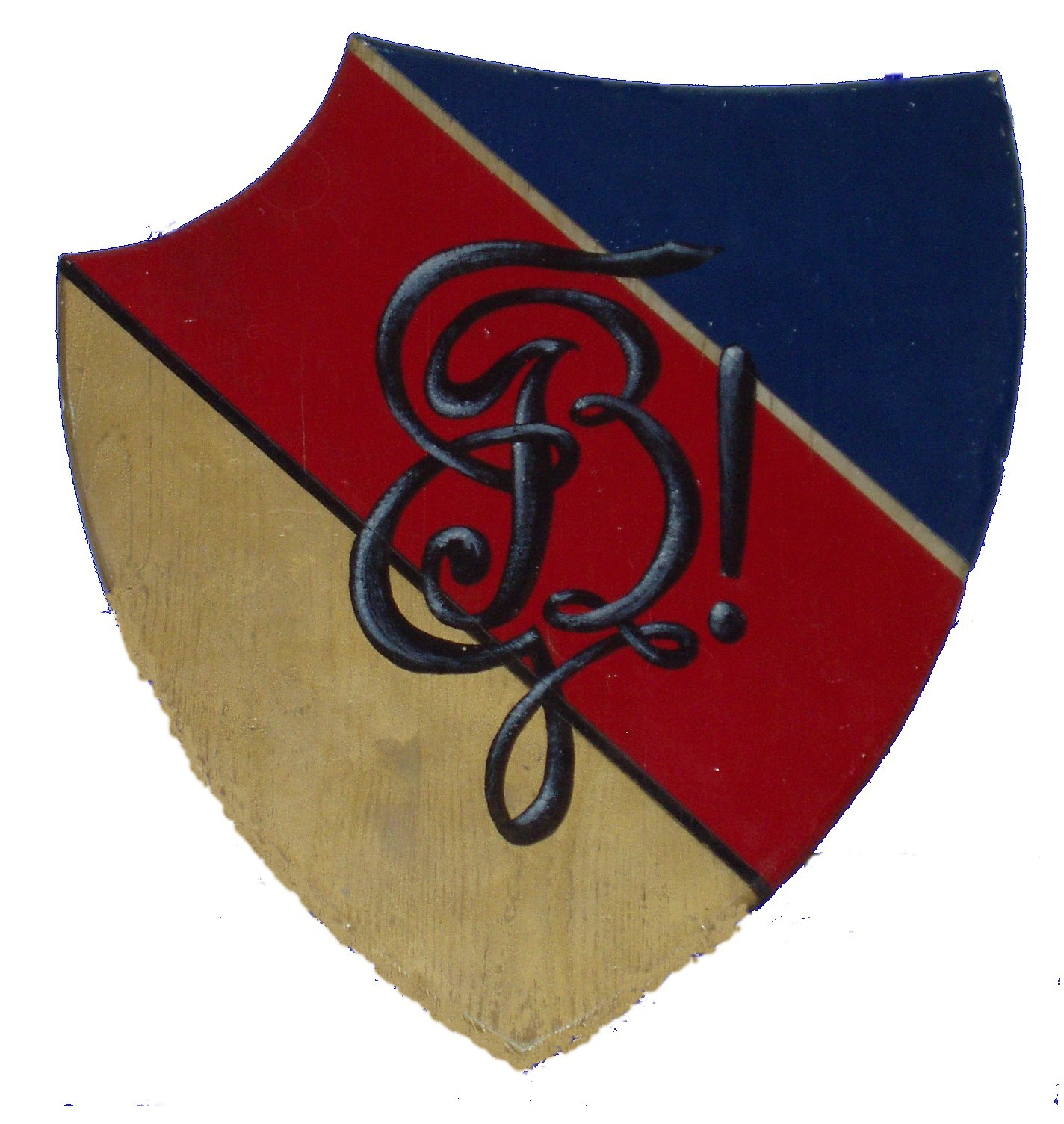 Zirkel auf den Verbindungsfarben der K.A.V. Bajuvaria zu Wien